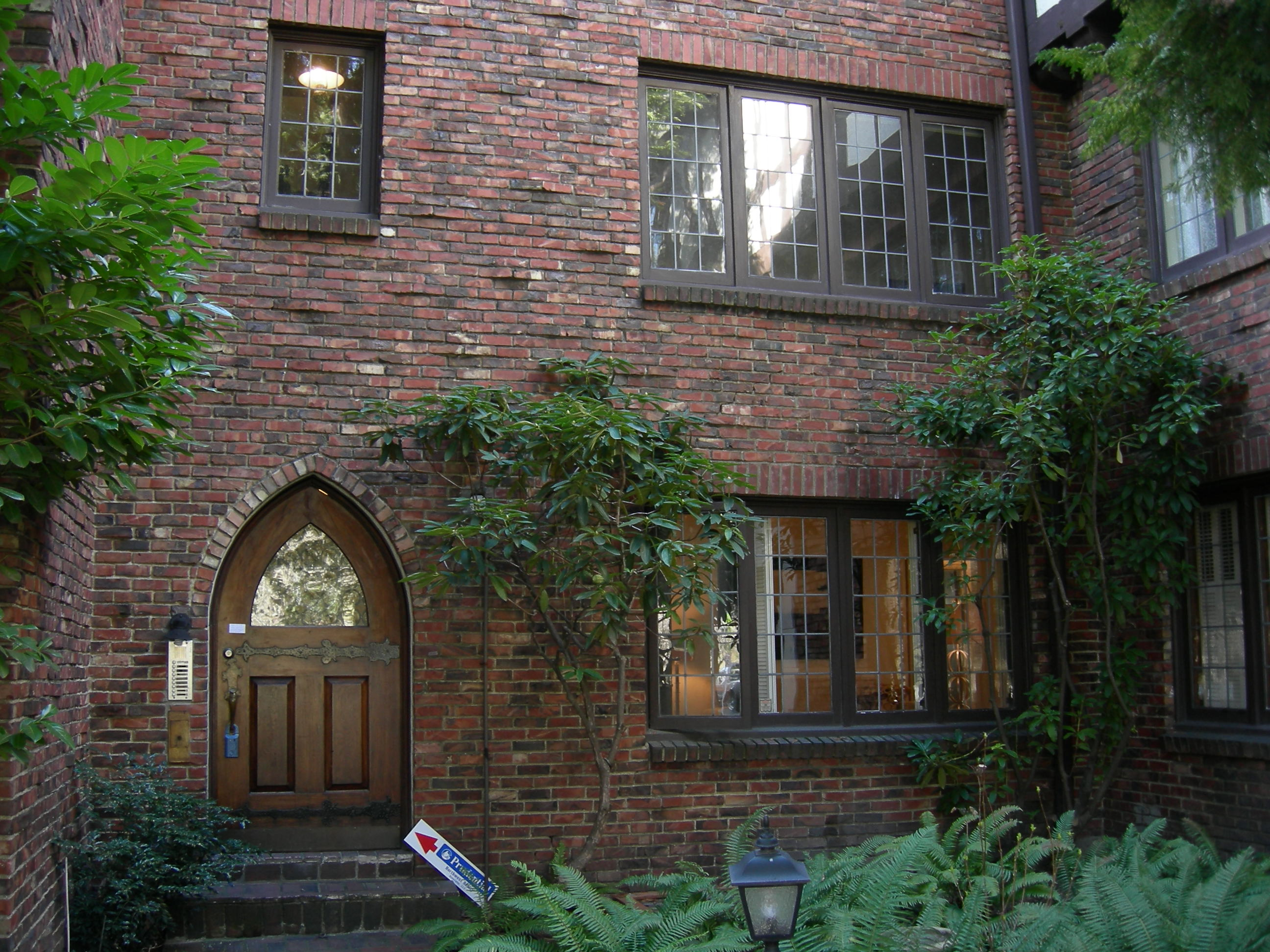 Anhalt apartment building, 1014 E. Roy Street, Seattle. The building is an official city landmark.